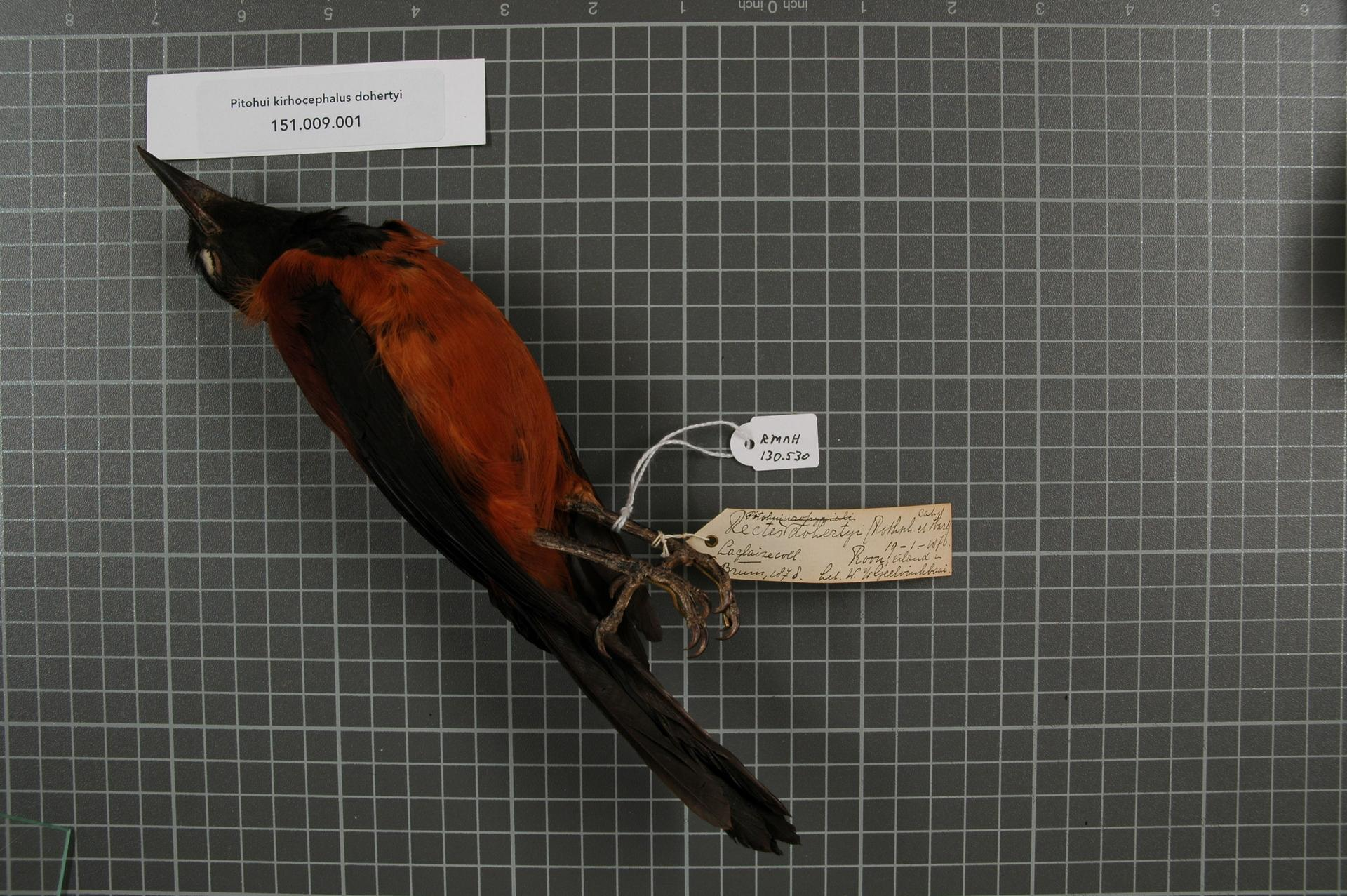 Pitohui kirhocephalus dohertyi Rothschild & Hartert, 1903